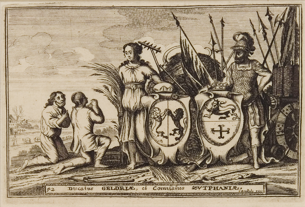 hertogdom Gelderland en graafschap Zutphen